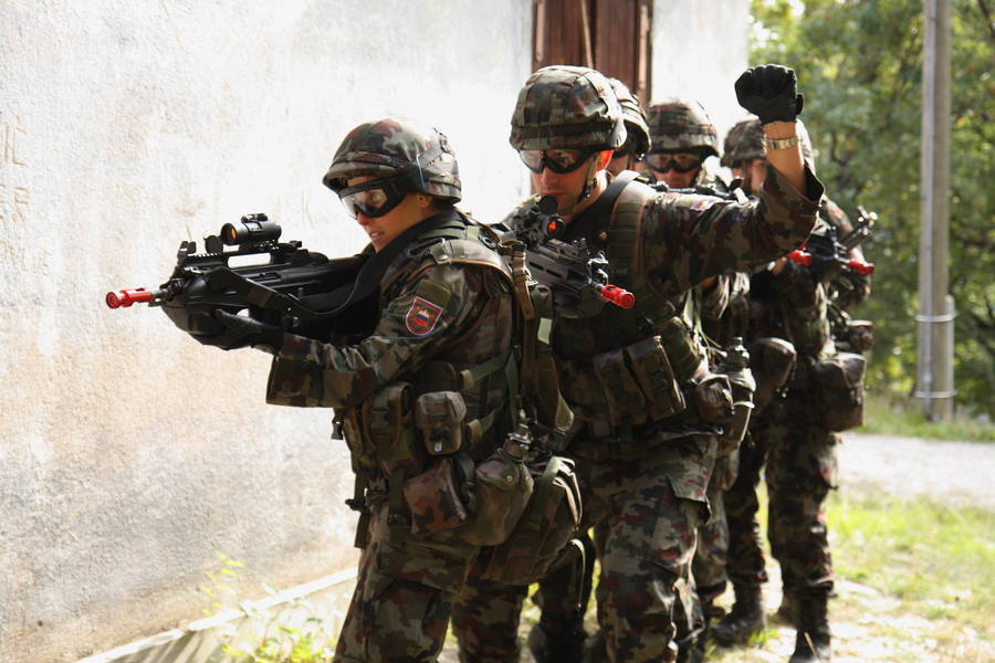 Slovenian soldiers with FN F2000 S